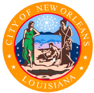 The official seal of New Orleans, Louisiana, dating from the 19th century, at which time the Legislative Council of the Territory of Orleans authorized the Mayor of New Orleans to procure and use a seal on all official acts and documents.